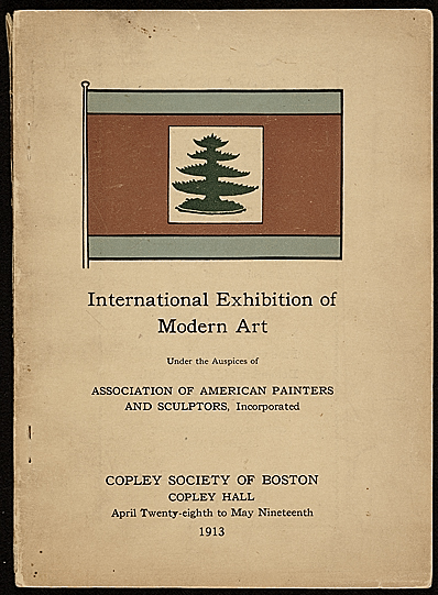 Cover of exhibit catalog, Boston, USA